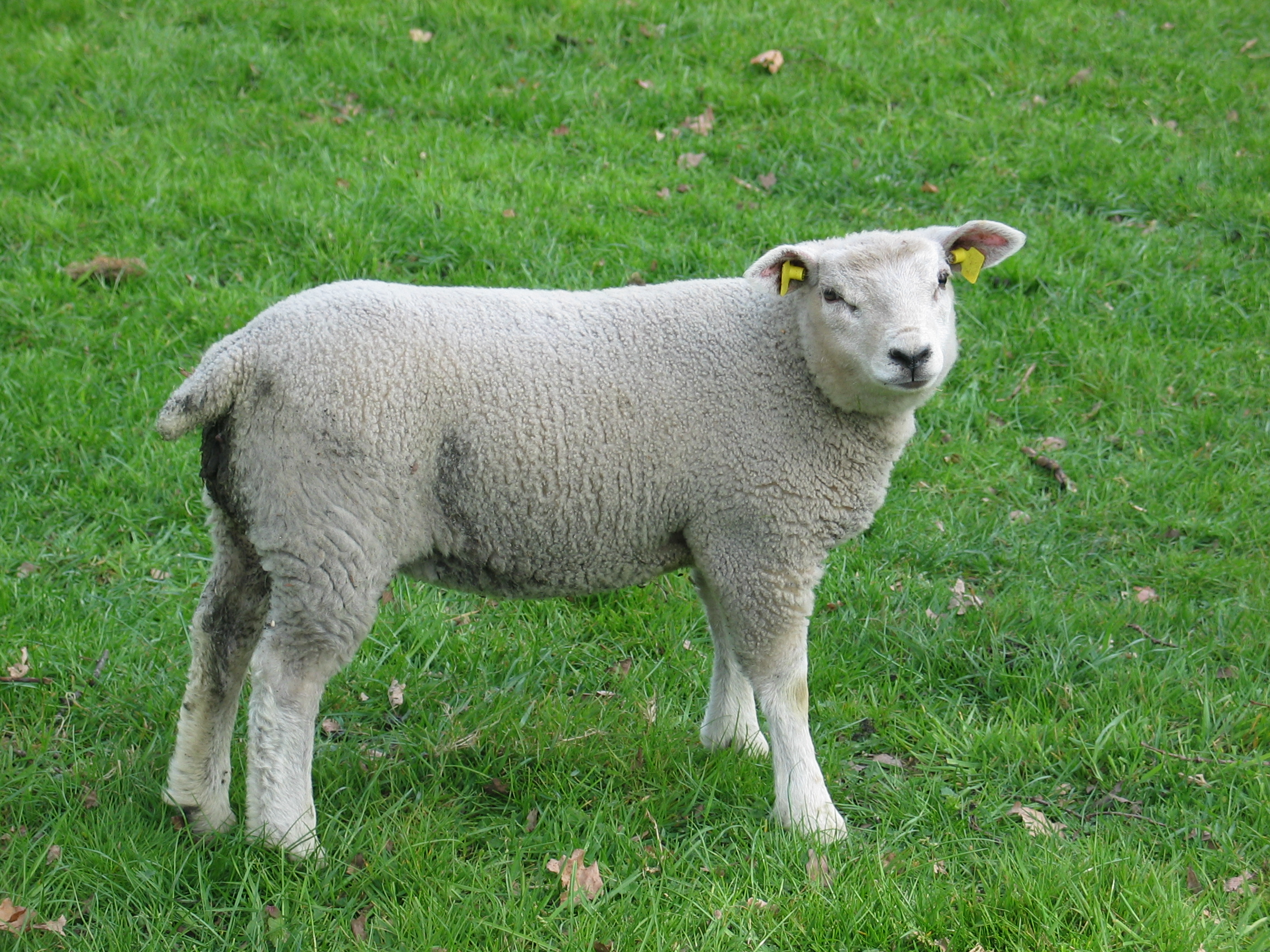 Jung lamb (netherlands)